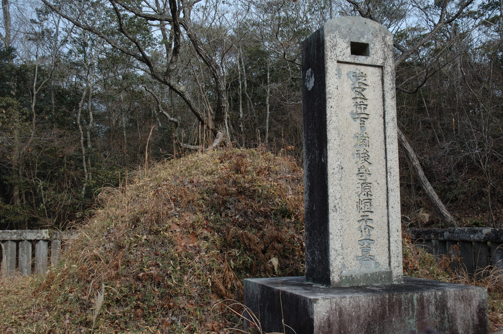 grave of Ikeda Tsunemoto in Roku-no-oyama